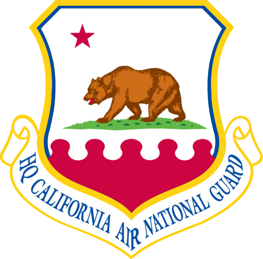 Emblem of the California Air National Guard, U.S. Air Force.